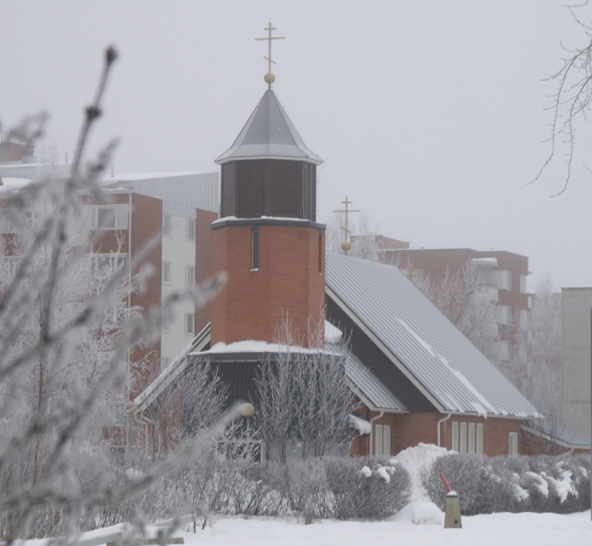 The Holy Trinity Cathedral – the Greek Orthodox church in Oulu, Finland. Oulu is one of the three orthodox dioceses in Finland headed by Metropolitan Panteleimon (in April 2002). The church was designed by architect Mikko Huhtela and completed in 1957.